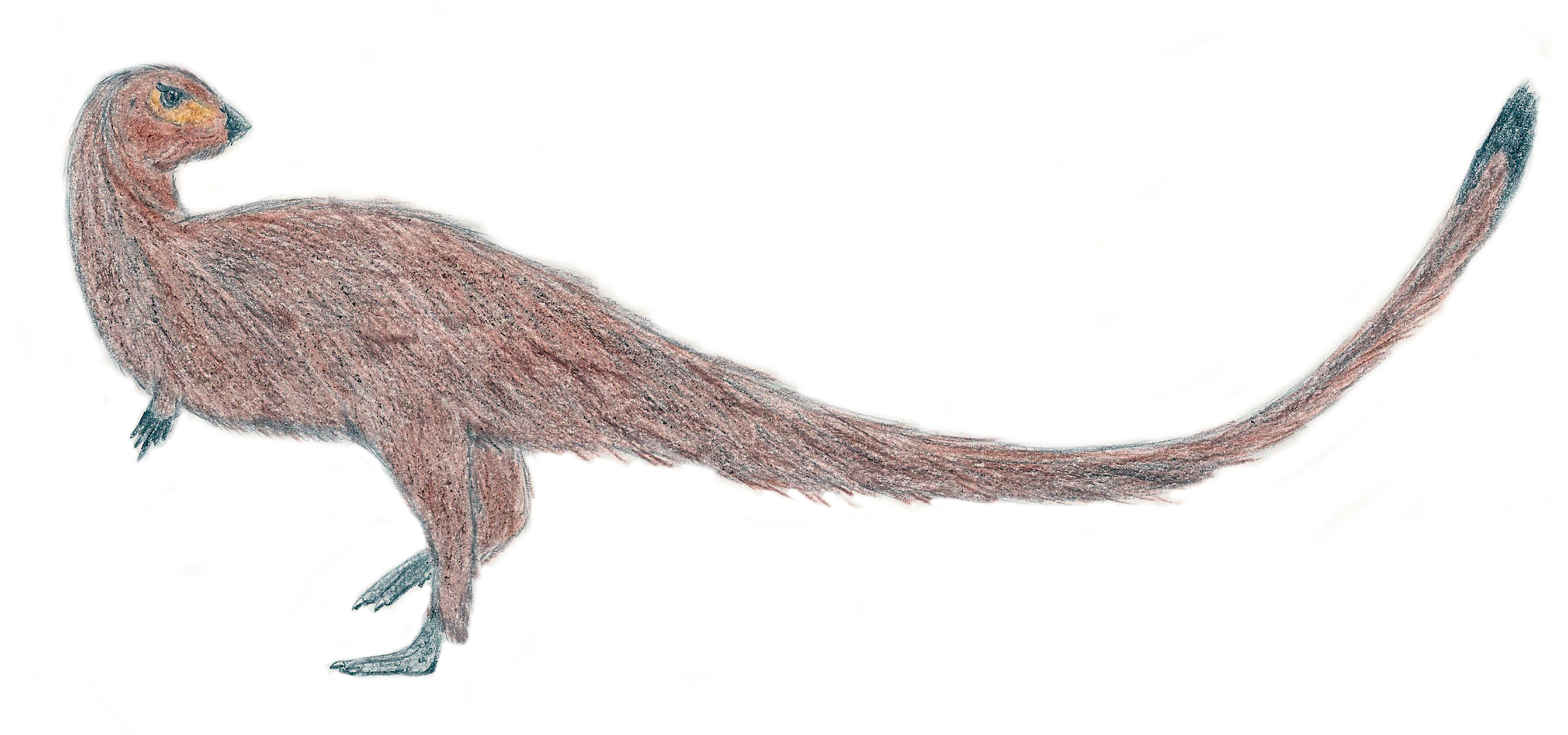 Leaellynasaura amicagraphica, an ornithopod which lived 108-105 million years ago in Australia